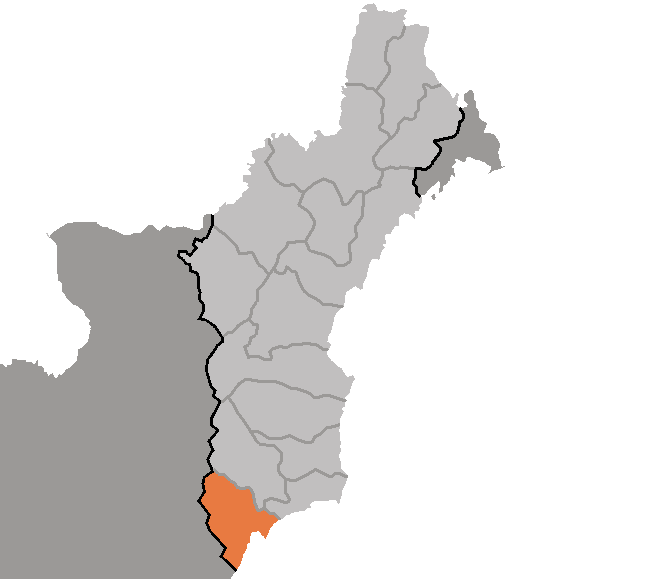 Map of Kimchaek city, Hamgyong-pukto, DPRK, 2006